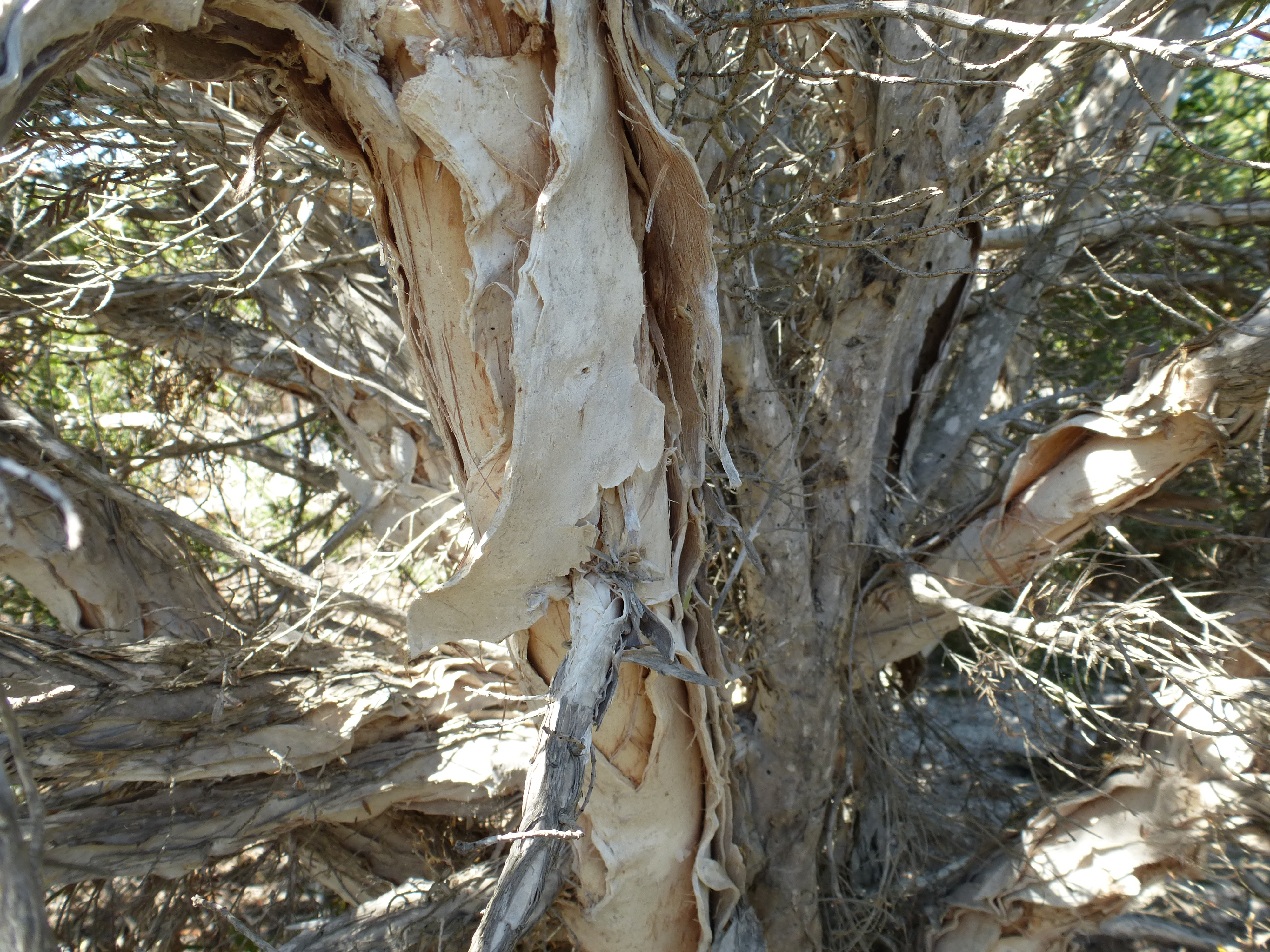 Melaleuca cuticularis 50 km E of Ravensthorpe